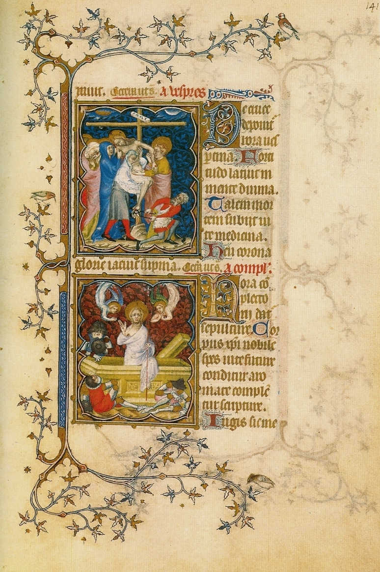 Jean Le Noir Miniature from Petites Heurs du Duc Jean de Berry 1372-75 Paris, Bibliotheque nationale de France.